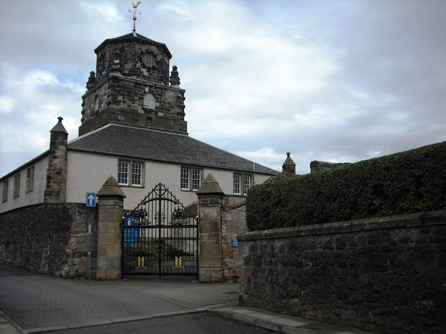 Burntisland Parish Church Completed in 1595.